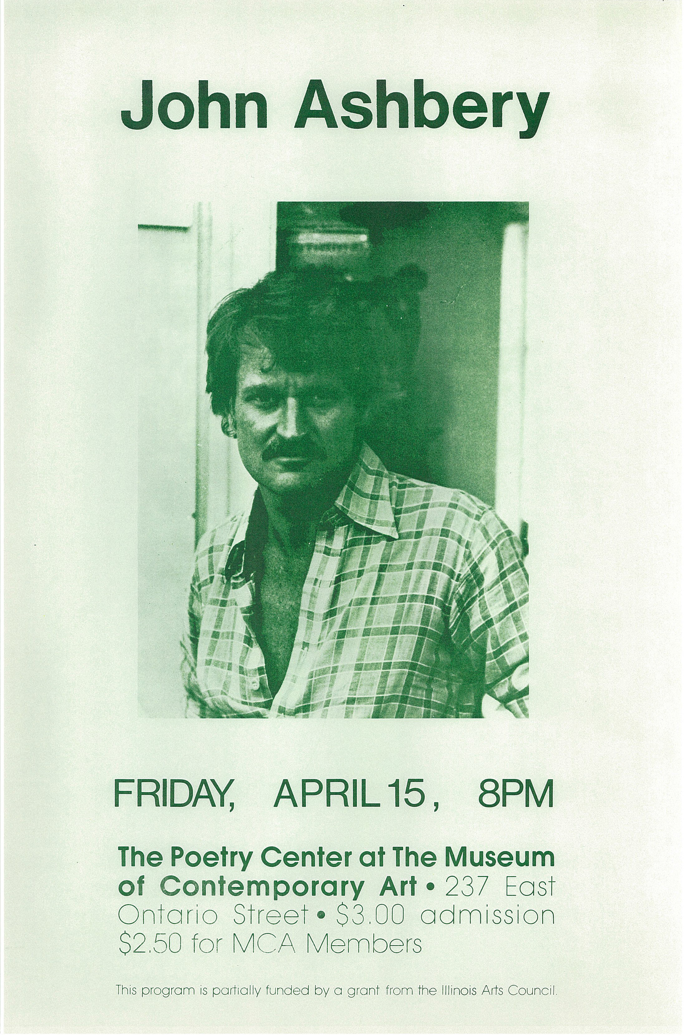 Poster promoting a poetry reading on April 15, 1977, by John Ashbery at the Poetry Center at the Museum of Contemporary Art in Chicago. The photo portrait of Ashbery was taken by Darragh Park in 1975 for the cover of the Penguin paperback edition of Self-Portrait in a Convex Mirror.